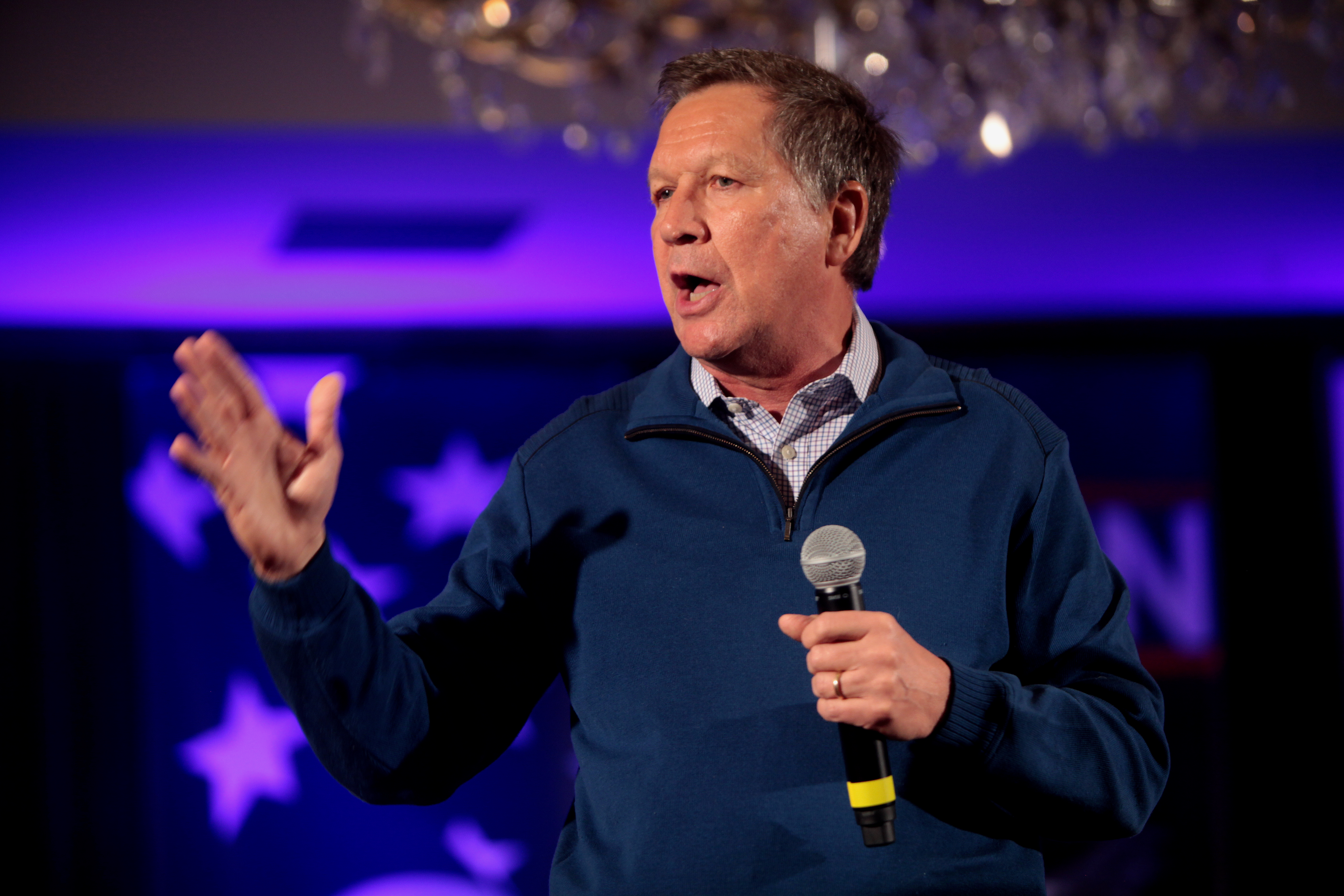 John Kasich speaking at an event in Nashua, New Hampshire.